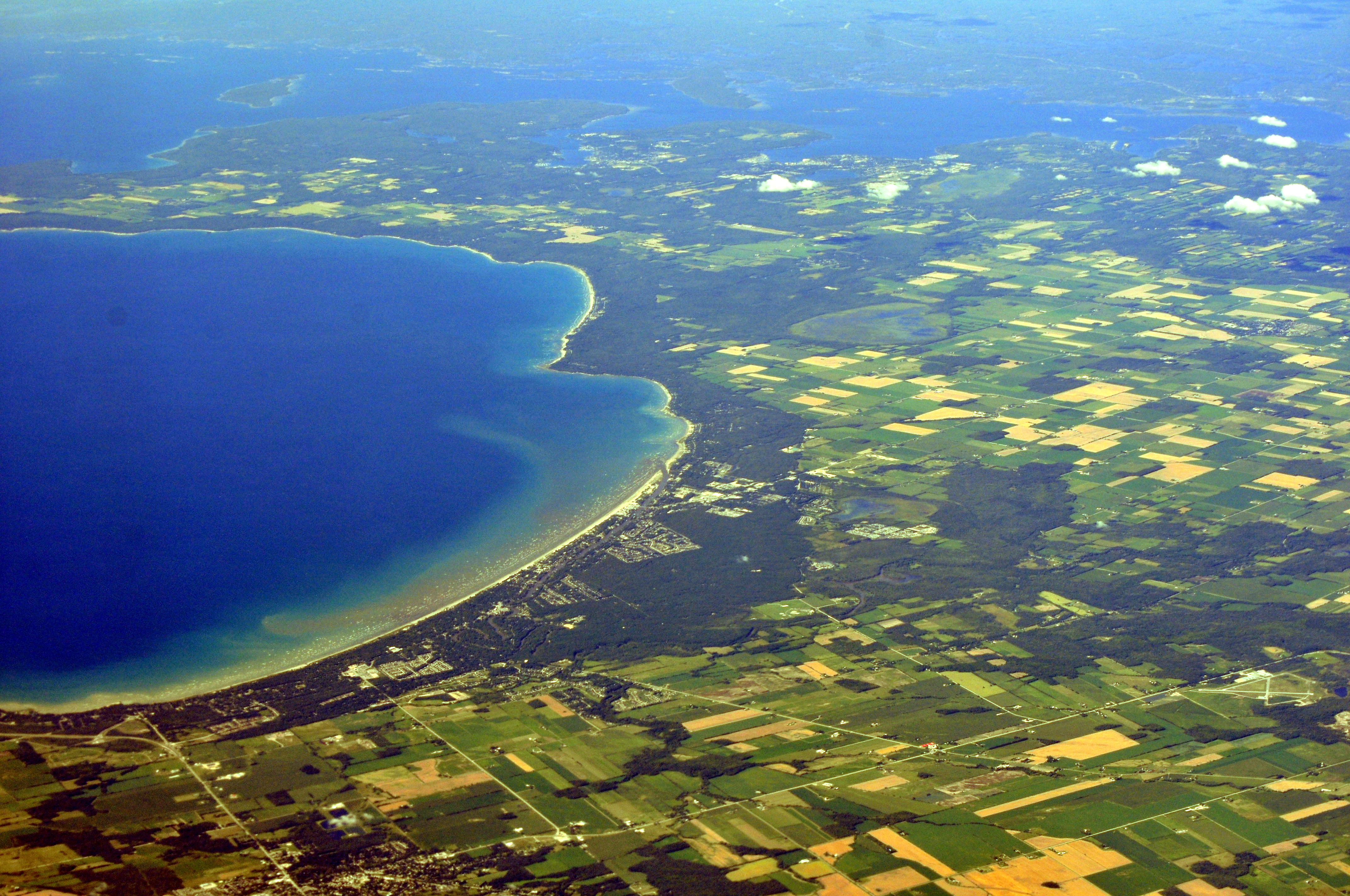 Aerial view of Wasaga Beach, Georgian Bay, Ontario, Canada. Wasaga Beach is a town on the longest freshwater beach in the world.